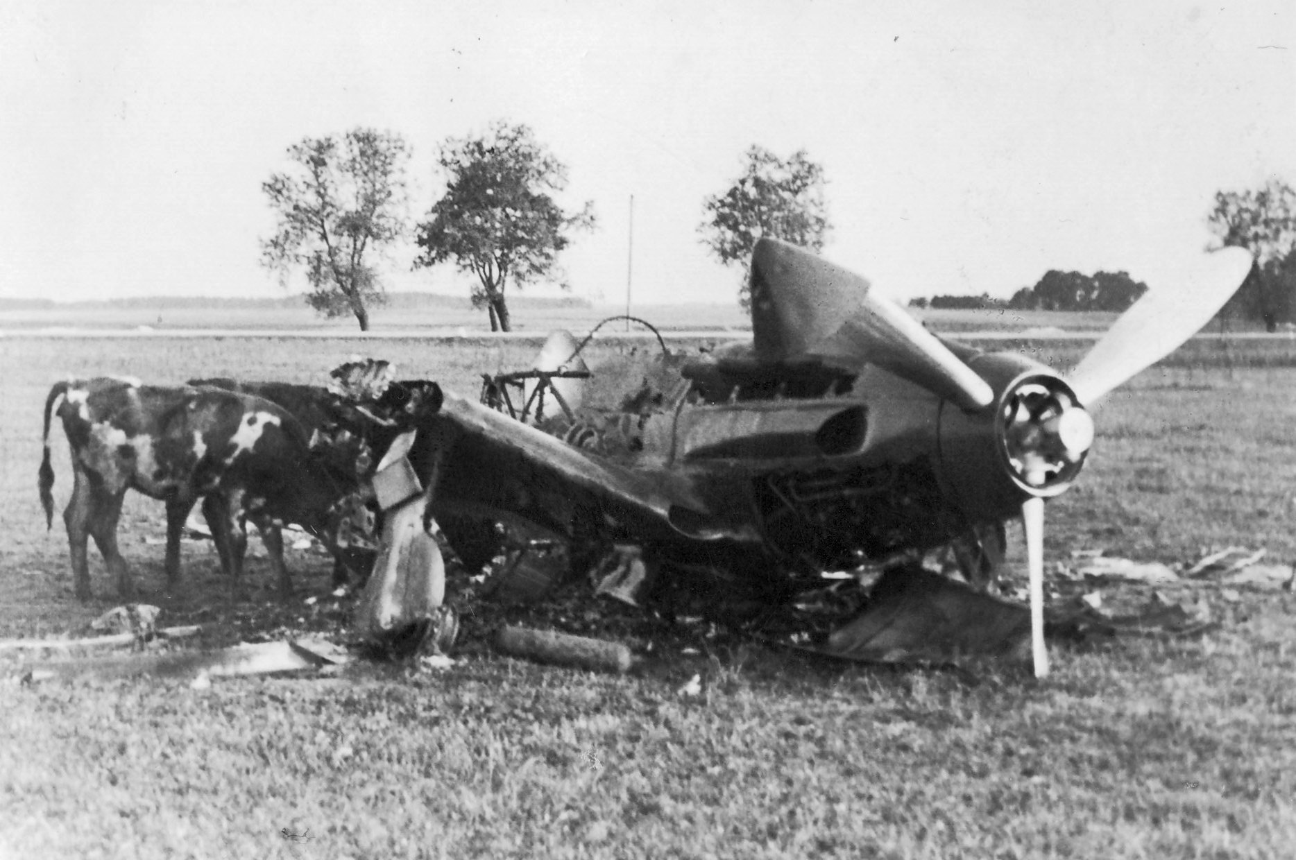 Operation Barbarossa: Destroyed Russian Mikoyan-Gurevich MiG-3 plane